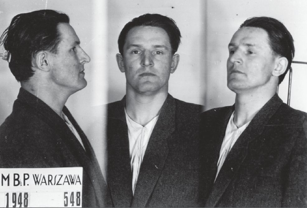 Stanisław Łukasik (1918-1949) – Polish partisan commander during WW II , Lieutnant of Armia Krajowa, soldier of anti-communist underground, after WW II, arrested, executed.